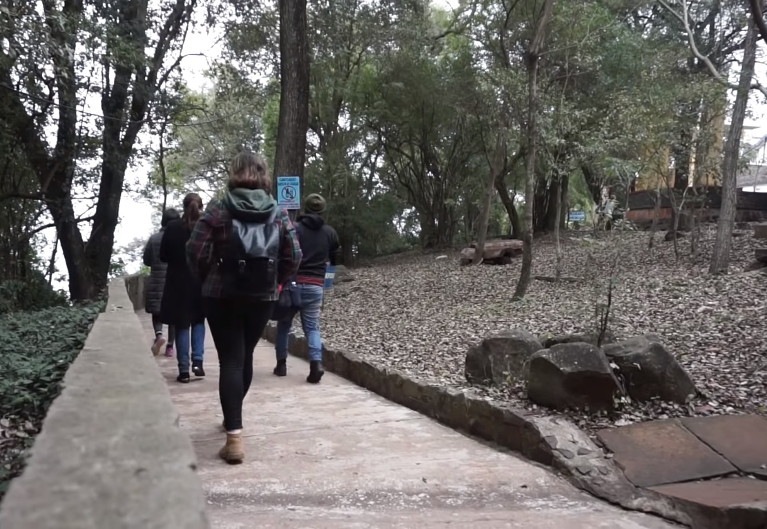 Path of Itacuá Sanctuary, Encarnación.